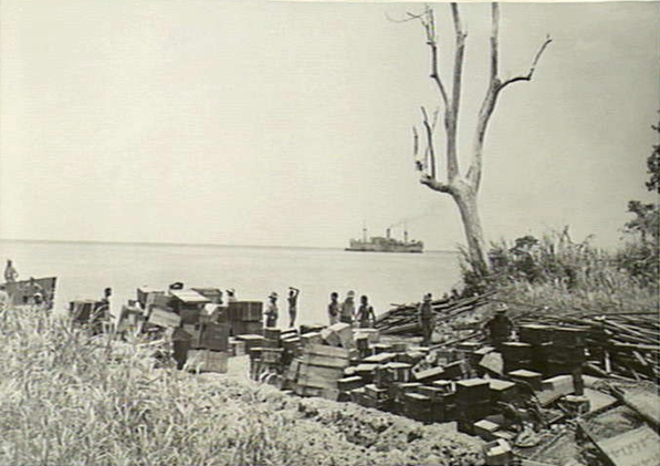 Cape hoskins with 36th Infantry Australian Battalion and the dutch troopship "Swartenhondt" in the background.